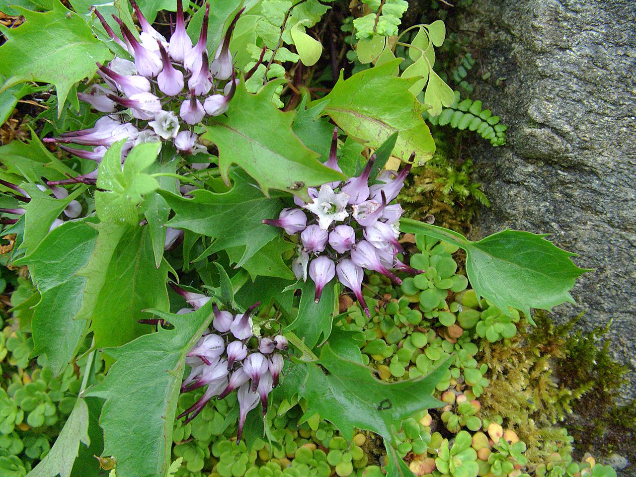 Physoplexis comosa - flowers